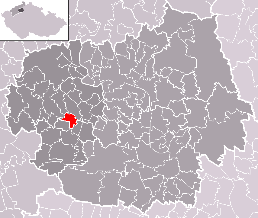 Location of Úpohlavy municipality within Litoměřice District and administrative area of Lovosice as a Municipality with Extended Competence.